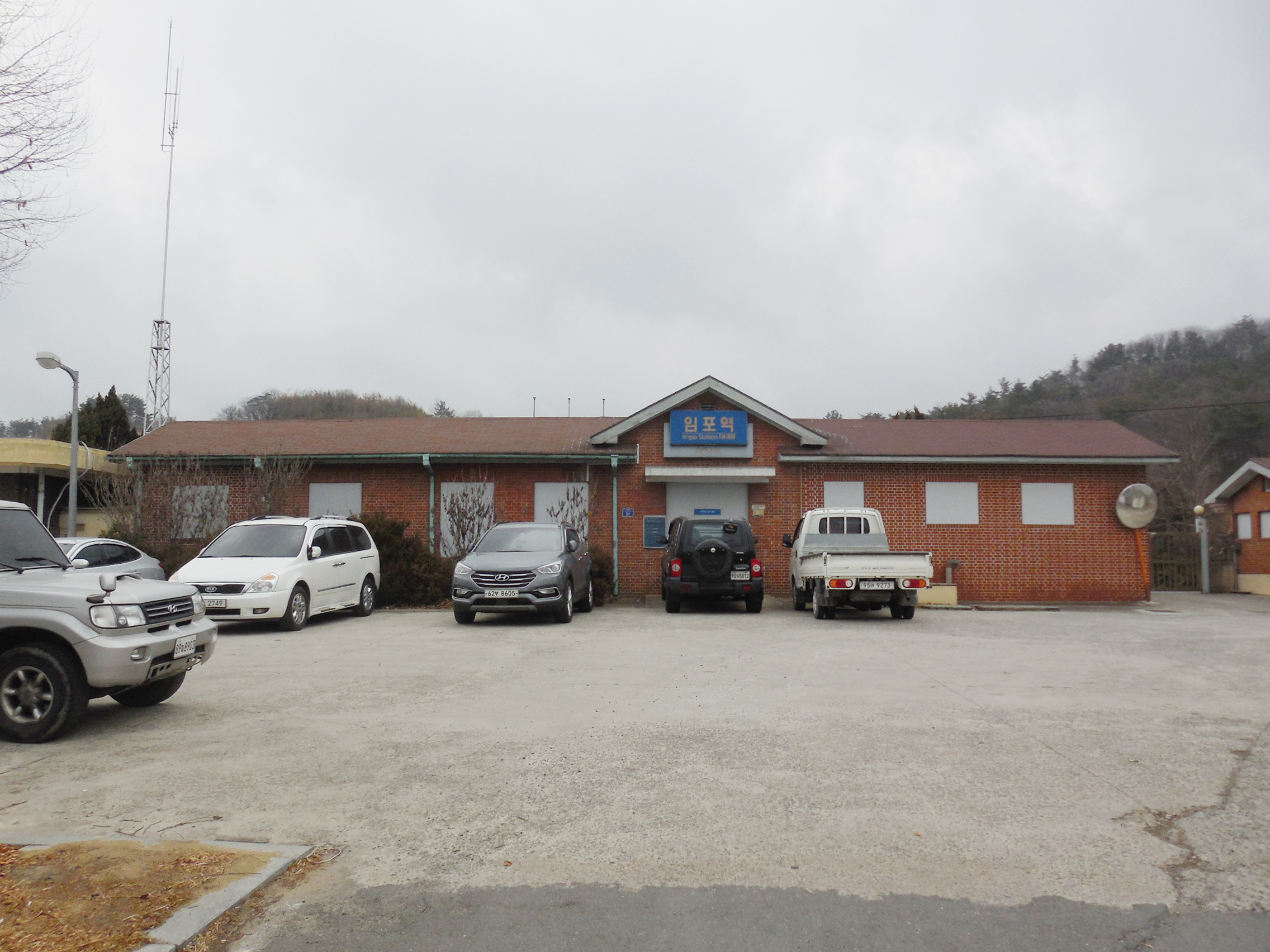 Korail Jungang Line Impo Station.